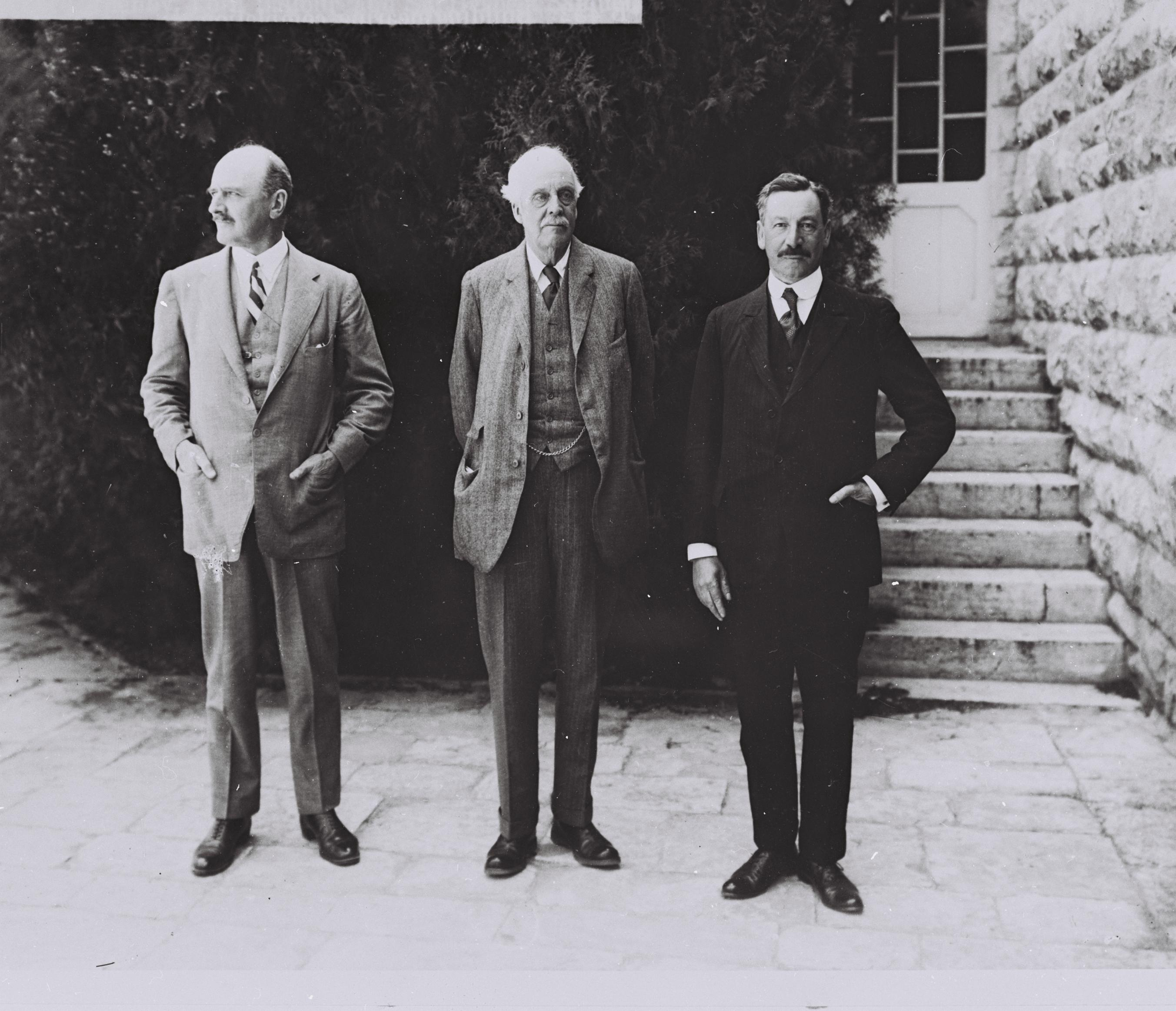 FROM LEFT: LORD EDMUND ALLENBY, LORD ARTHUR JAMES BALFOUR & SIR HERBERT SAMUEL. (COURTESY OF AMERICAN COLONY). צילום משותף של (משמאל לימין), הלורד אדמונד אלנבי, הלורד ארתור בלפור וסר הרברט סמואל.